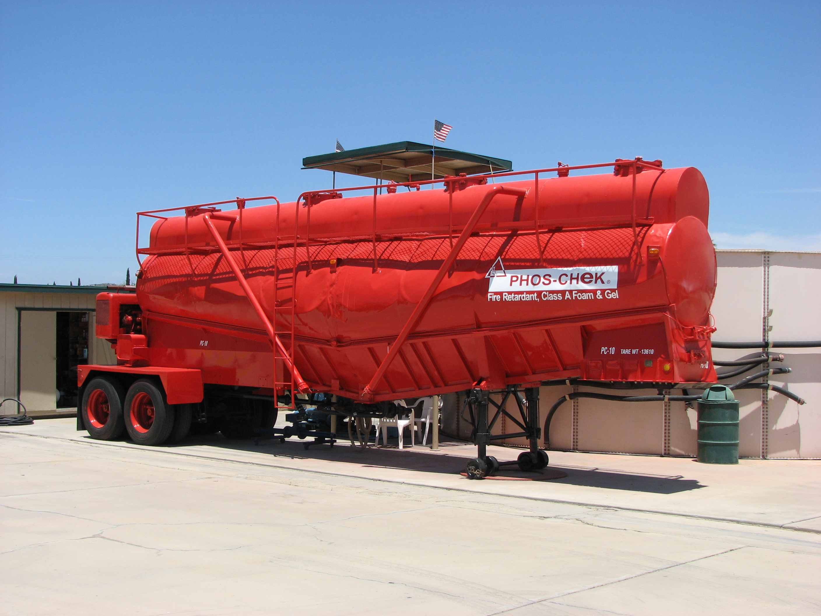 A tank of Phos-Chek fire retardand at Ramona Airport (KRNM)